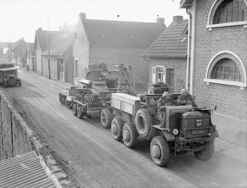 The British Army in France 1939-40 Light Tank Mk VI on board a trailer being towed by an FWD R6T (AEC 850) recovery tractor, December 1939.